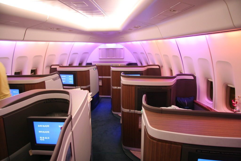 Cathay Pacific First Class